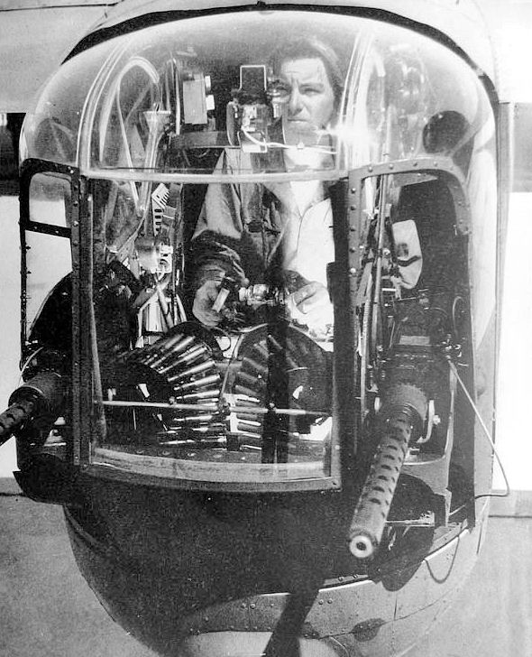 B-24 Liberator tail gunner training photo